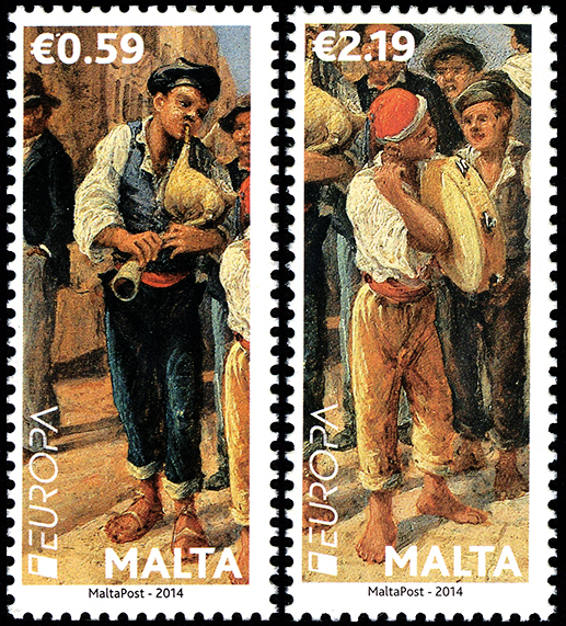 Malta Postage Stamps, 2014. National musical instruments. EUROPA Issue Street musicians in La Valletta. Painting by Girolamo Gianni. Detail.